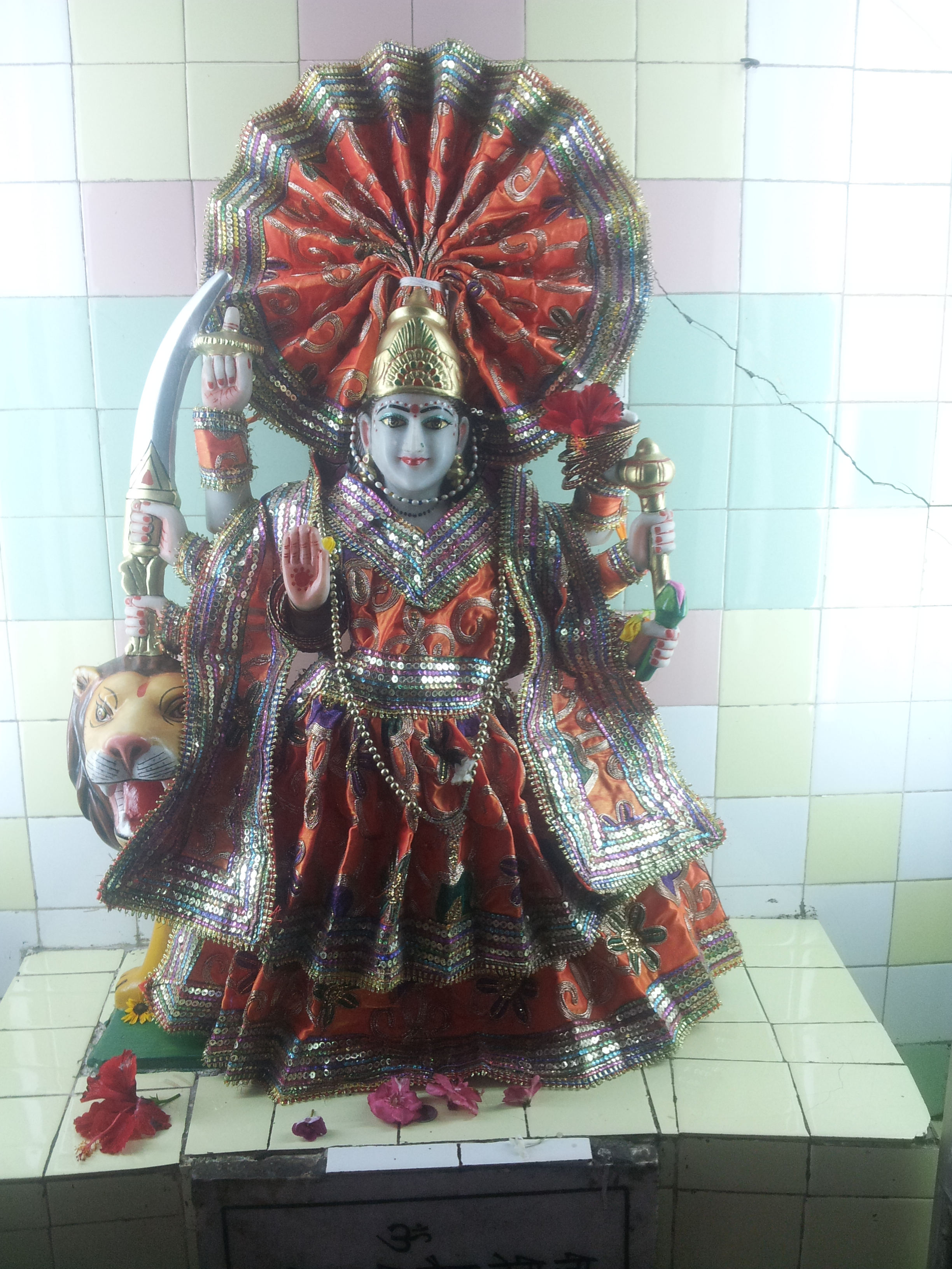 Mata Naina Devi at Mandir Thakur Shri Saty Narayan Ji.